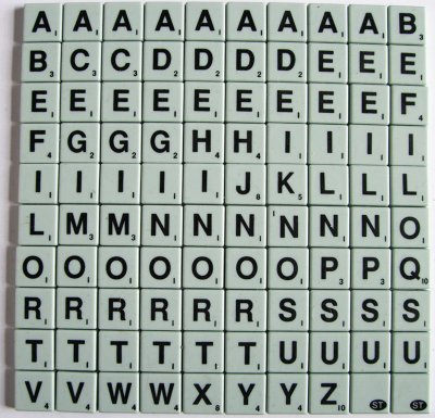 Scrabble tiles; full 100-tile English-language set with one upside-down letter N.